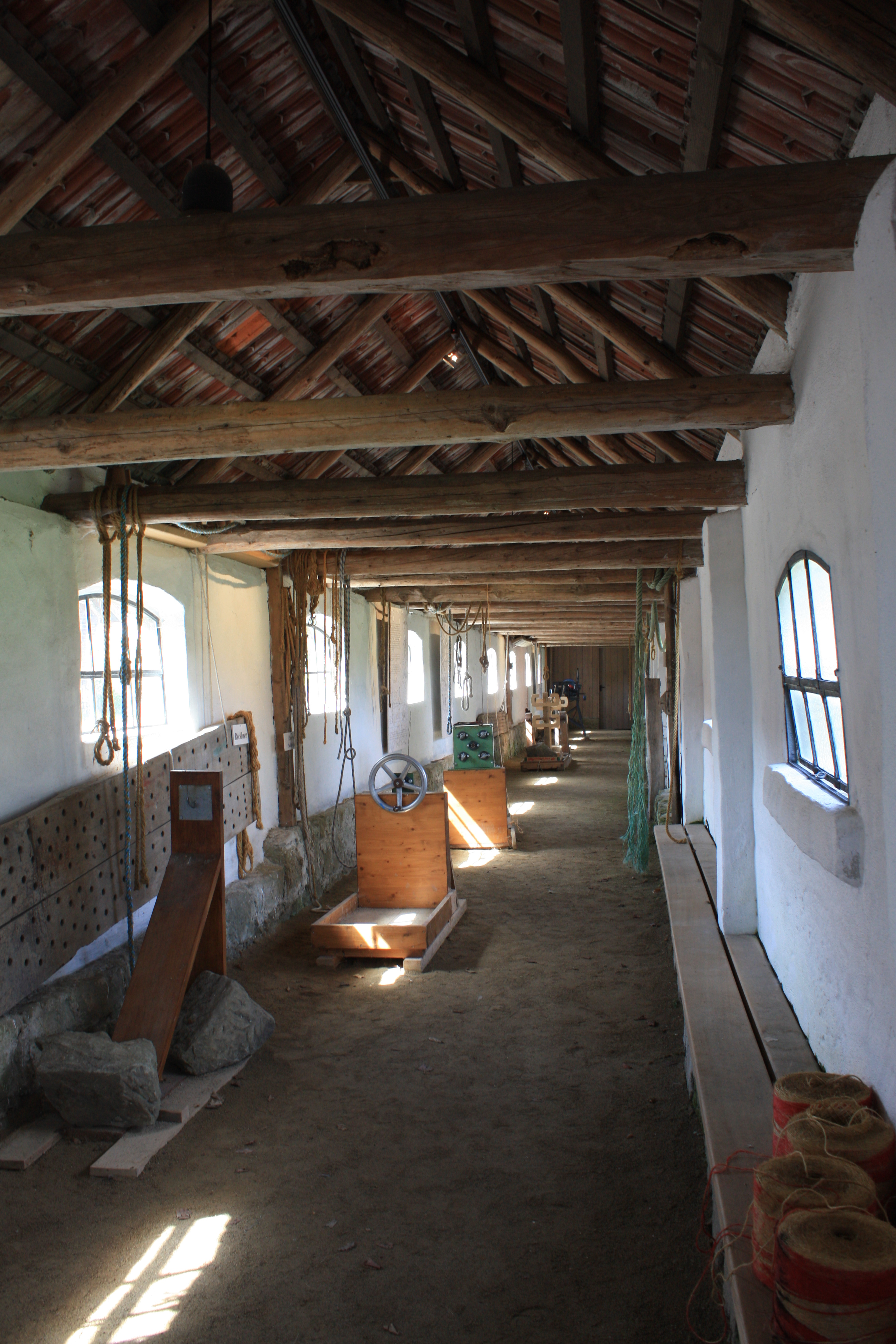 Seilerei im Handwerkerdorf in Rüthen A geocoded location could be added to this image. Visit Commons:Geocoding for information on how to add coordinates. Beta-test: Add coordinates helps to determine coordinates.